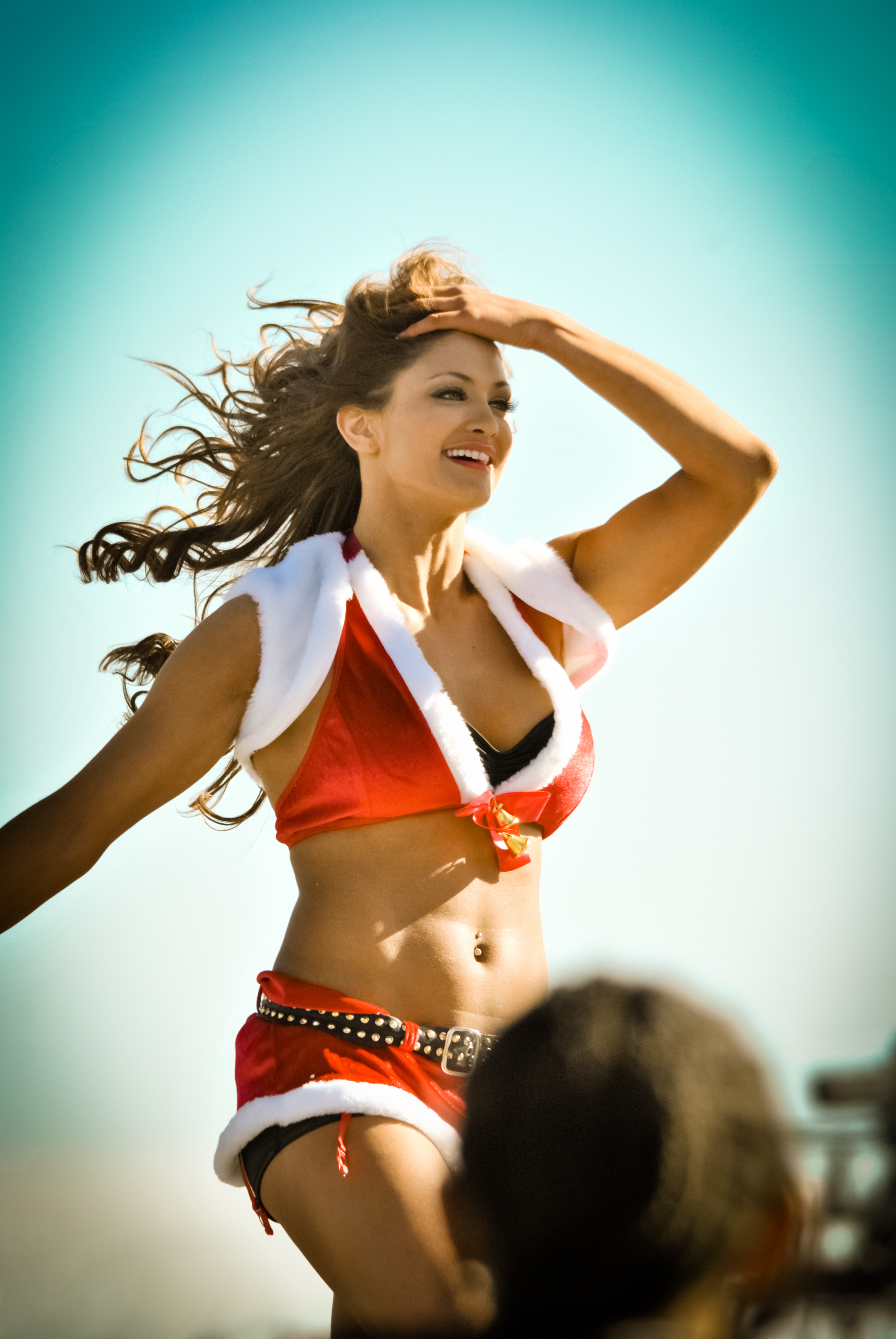 Eve Torres at Tribute to the Troops in Fort Hood, Texas on December 11, 2010.